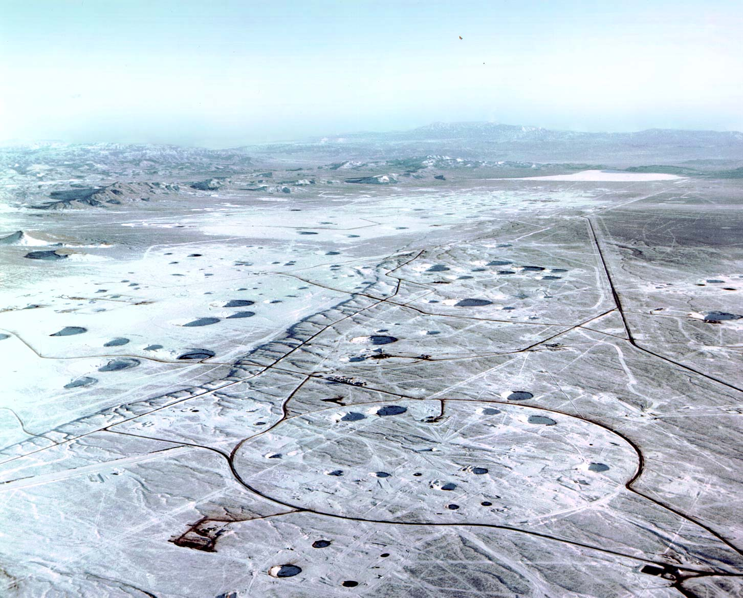 The crater-scarred landscape of the Nevada Test Site. Original caption: Most subsidences leave saucer-shaped craters varying in diameter and depth, depending upon the yield, depth of burial, and geology. This is the north end of Yucca Flat. Most tests have been conducted in this valley.